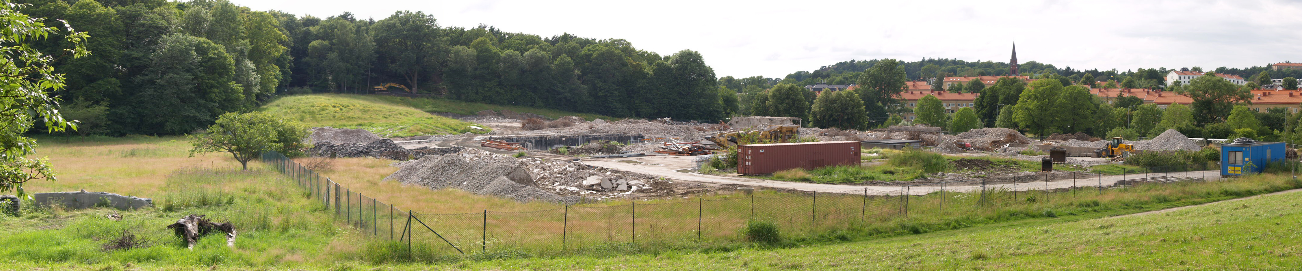 Former Swedish Television building demolished in Örgryte in Gothenburg, Sweden.